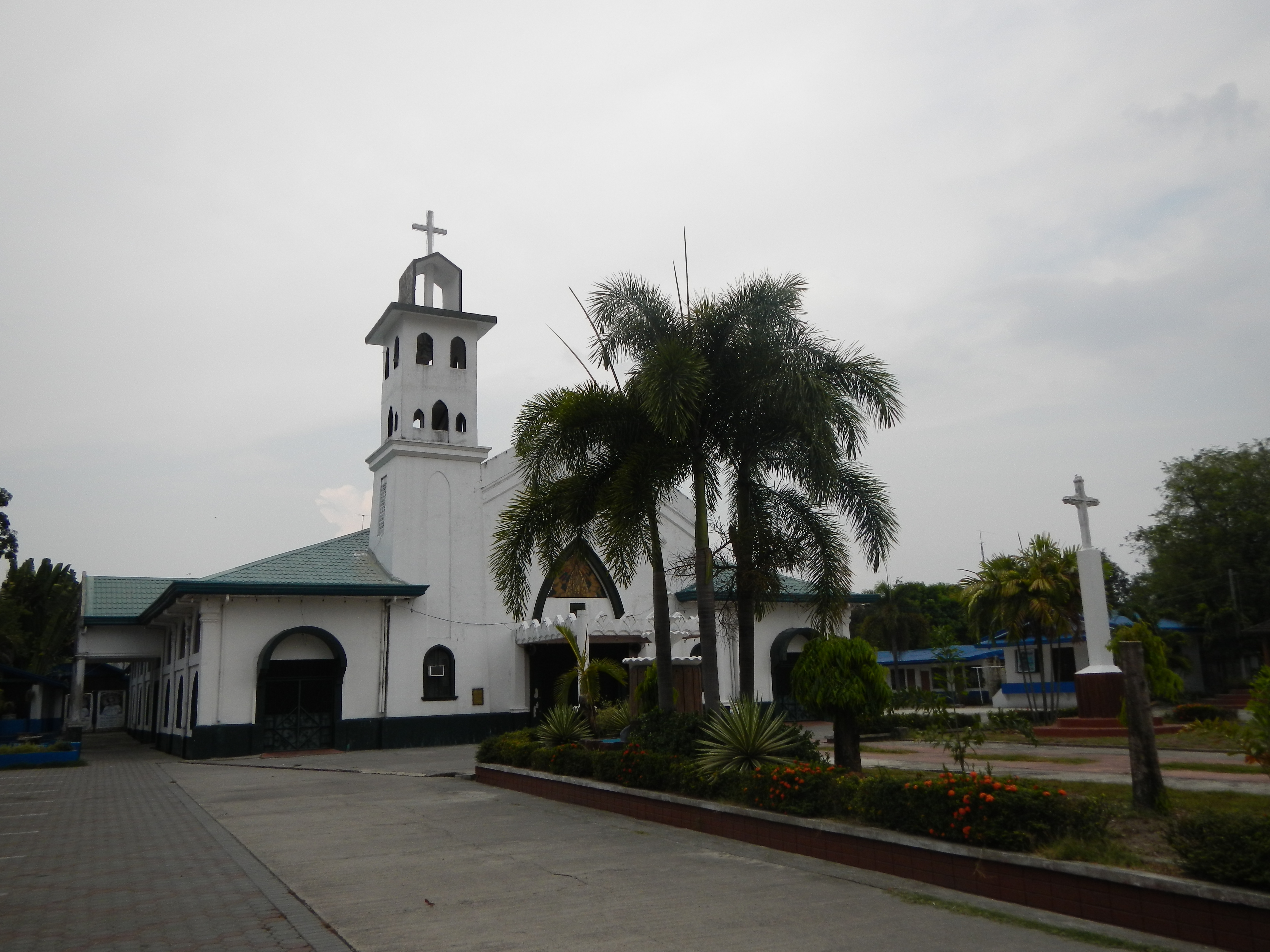 (F-1790) Shrine of Our Lady of Peace and Good Voyage (Nuestra Señora de la Paz y Buen Viaje) : La Paz 2314 Tarlac, Philippines[1] 2314 Zip Code[2] Titular: Our Lady of Peace and Good Voyage, January 24 Former Parish Priest: Father Ramon Capuno[3] Roman Catholic Diocese of Tarlac[4] The Church of La Paz[5]Pilgrims seek healing in La Paz, Tarlac January 17, 2010 - [6]Our Lady of Peace and Good Voyage (Nuestra Señora de la Paz y Buen Viaje) Fr. Ramon Capuno, former rector-Parish Priest of La Paz’s parish church,Coordinates: 15°26'32"N 120°43'47"E [7]Vicariate of Immaculate Conception (Victoria, Tarlac) Vicar Forane: Father Vely Lapitan[8]LA PAZ: THE CORRIDOR OF UPCOMING MARKET GROWTH AND BOOM